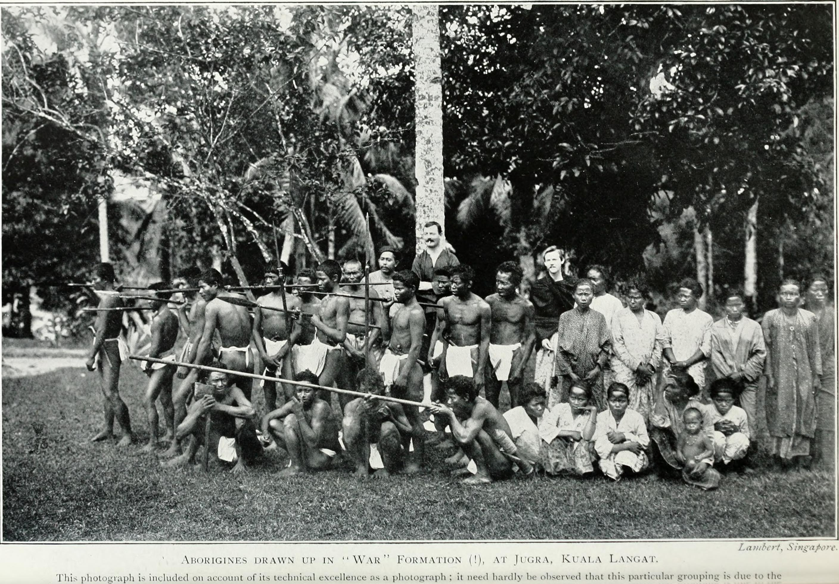 Title: Pagan races of the Malay Peninsula Year: 1906 (1900s) Authors: Skeat, Walter William, 1866- Blagden, Charles Otto, 1864-1949 Subjects: Ethnology -- Malay Peninsula Malays (Asian people) Malay Peninsula -- Social life and customs Malay Peninsula -- Religion Malay Peninsula -- Aboriginal dialects Publisher: London : Macmillan and Co., limited (etc., etc.) Text Appearing Before Image: 8o5 Text Appearing After Image: 8o6